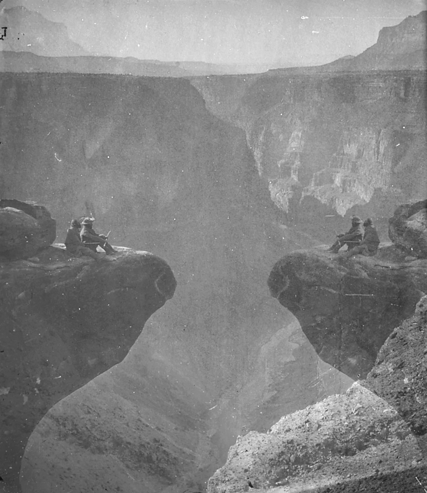 General notes: Photographed by William Bell as part of the 1872 Wheeler Survey.